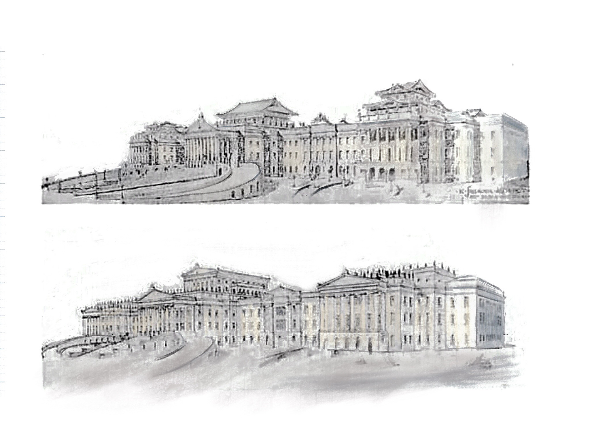 Two drawings of Imperial Crown style that Shimoda Kikutaro presented to the Imperial Diet in 1920